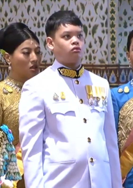 Prince Dipangkorn, May 5, 2019